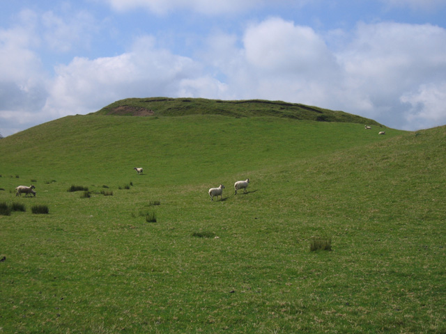 Castell-y-Blaidd, near Glyndwr's Way, 3 km from Llanbadarn Fynydd, Powys, Great Britain. Castell-y-Blaidd is an earthwork, probably an unfinished 13th century Norman castle. It sits beside Glyndwr's Way.